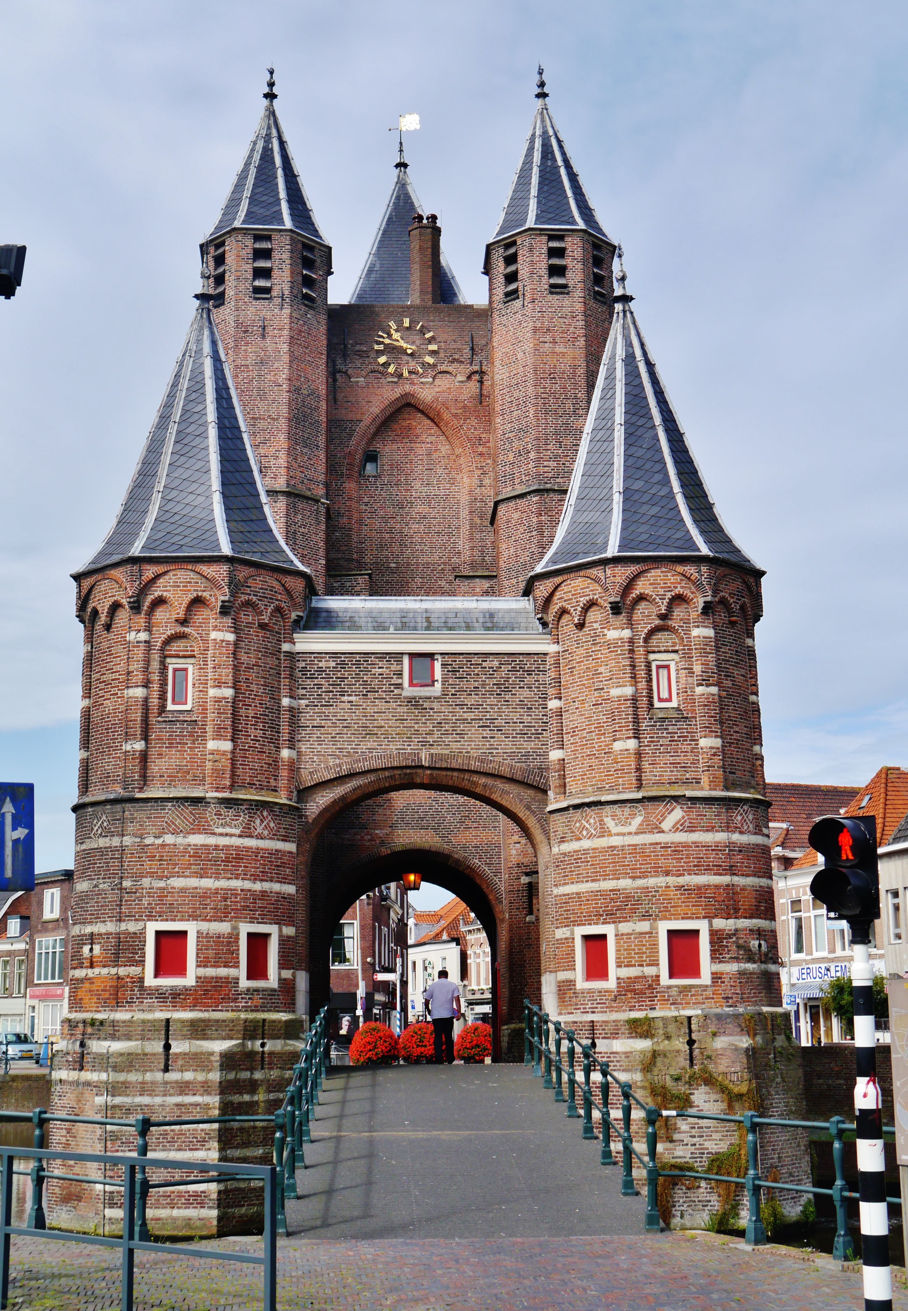 Amsterdam Gate, Haarlem, Province of North Holland, Netherlands